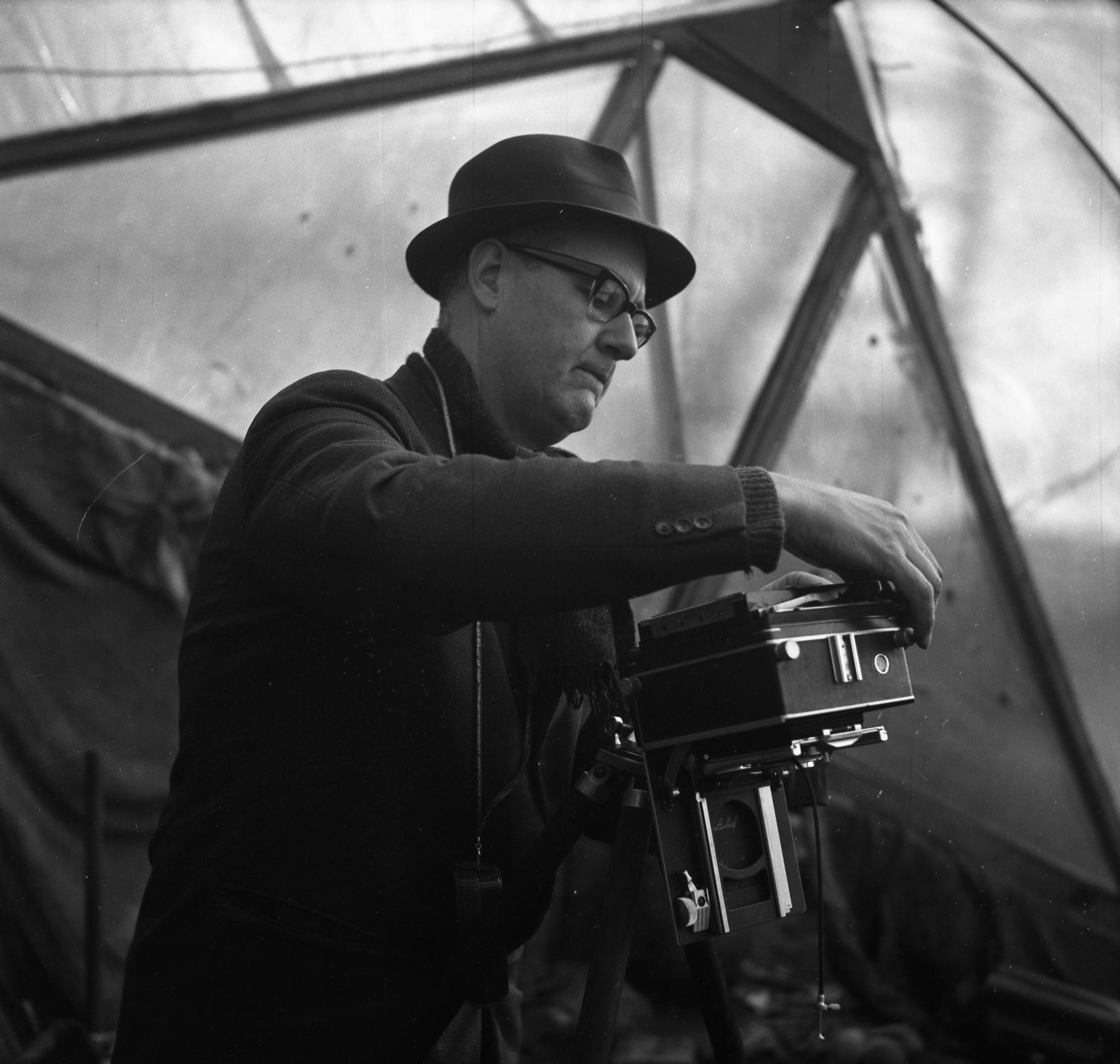 Format: Negativ 120 film Dato / Date: ca. 1968 Fotograf / Photographer: Eirik Sundvor (1902 - 1992) Sted / Place: Bergen Wikipedia: Asbjørn Herteig (1919 - 2006) Wikipedia: Linhof (kamera) Eier / Owner Institution: Trondheim byarkiv, The Municipal Archives of Trondheim Arkivreferanse / Archive reference: Tor.H43.Bxx.F16107 Merknad: Asbjørn Herteig med storformat Linhof kamera.